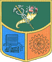 Coat or arms of Moscow Rayon of Kharkow.